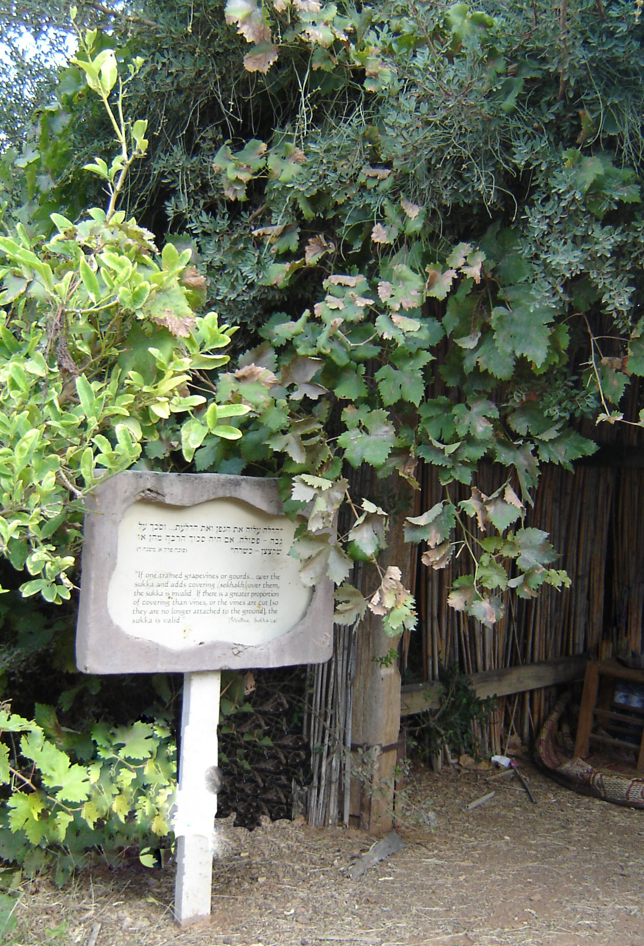 sukkah_covvered_with_vine in "Neot Kedomim", Israel